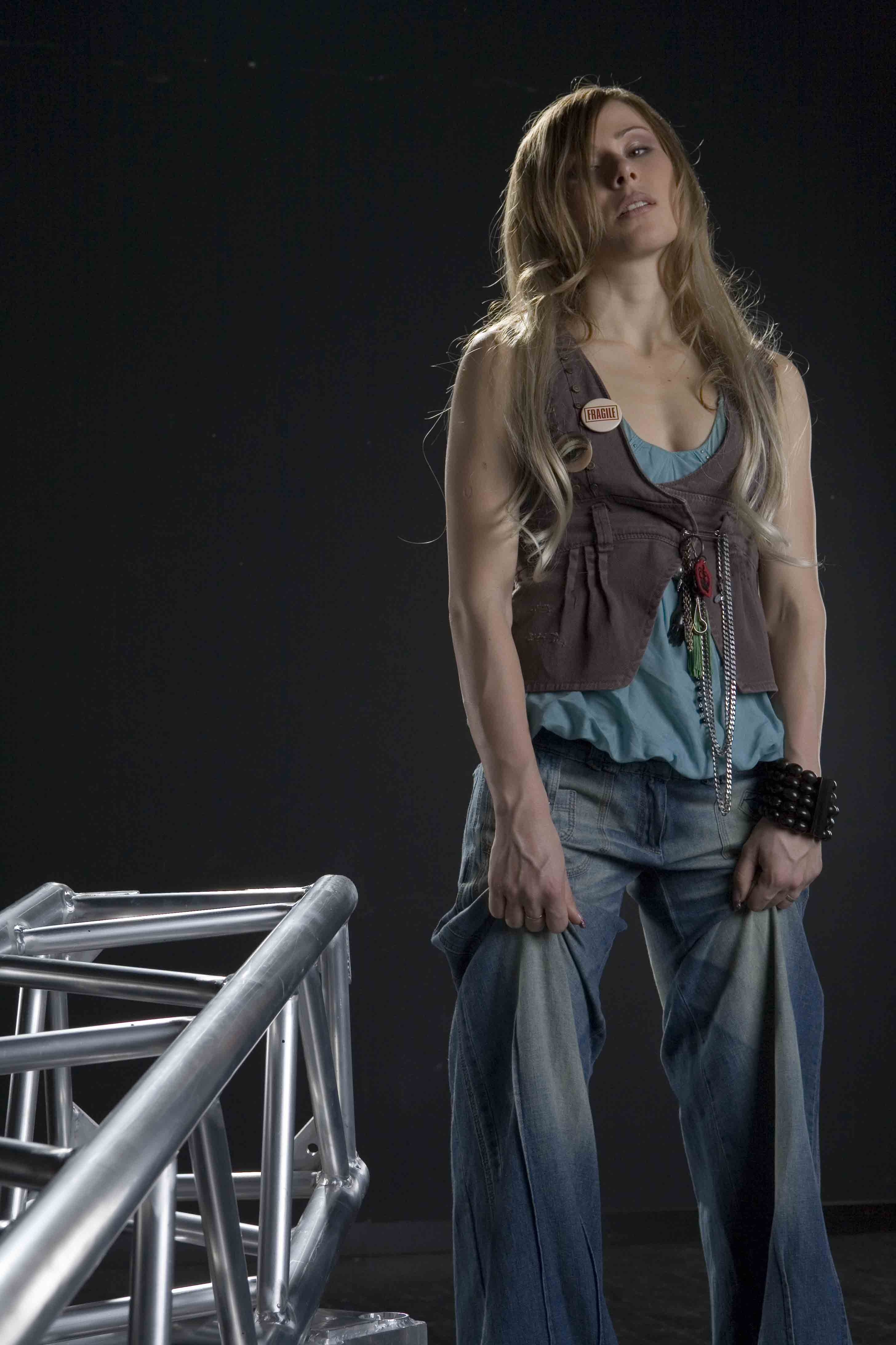 Yuliya Chepalova